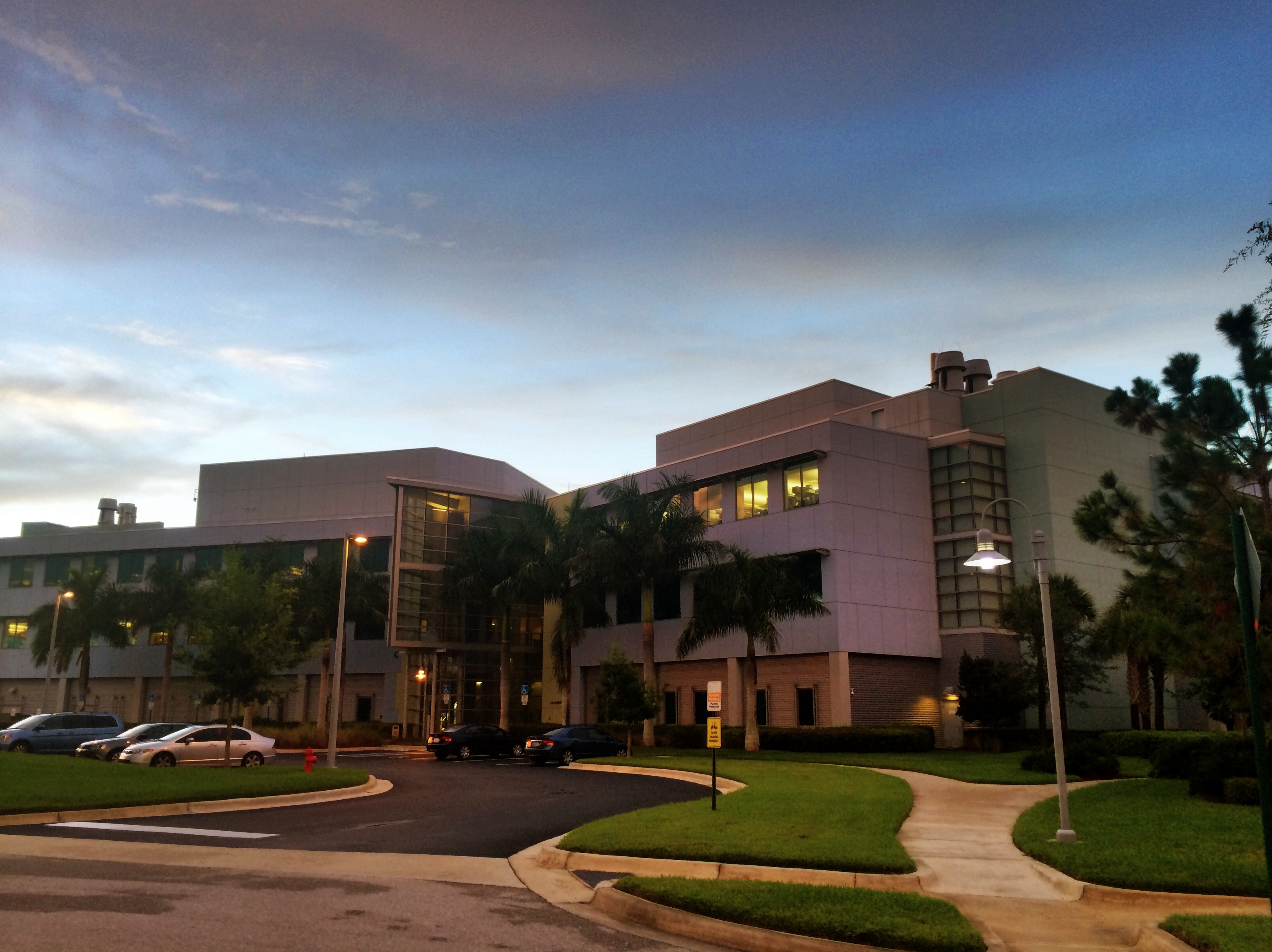 Houses the departments of Neurobiology, Cancer Biology, and Infectology at The Scripps Research Institute's Florida campus.